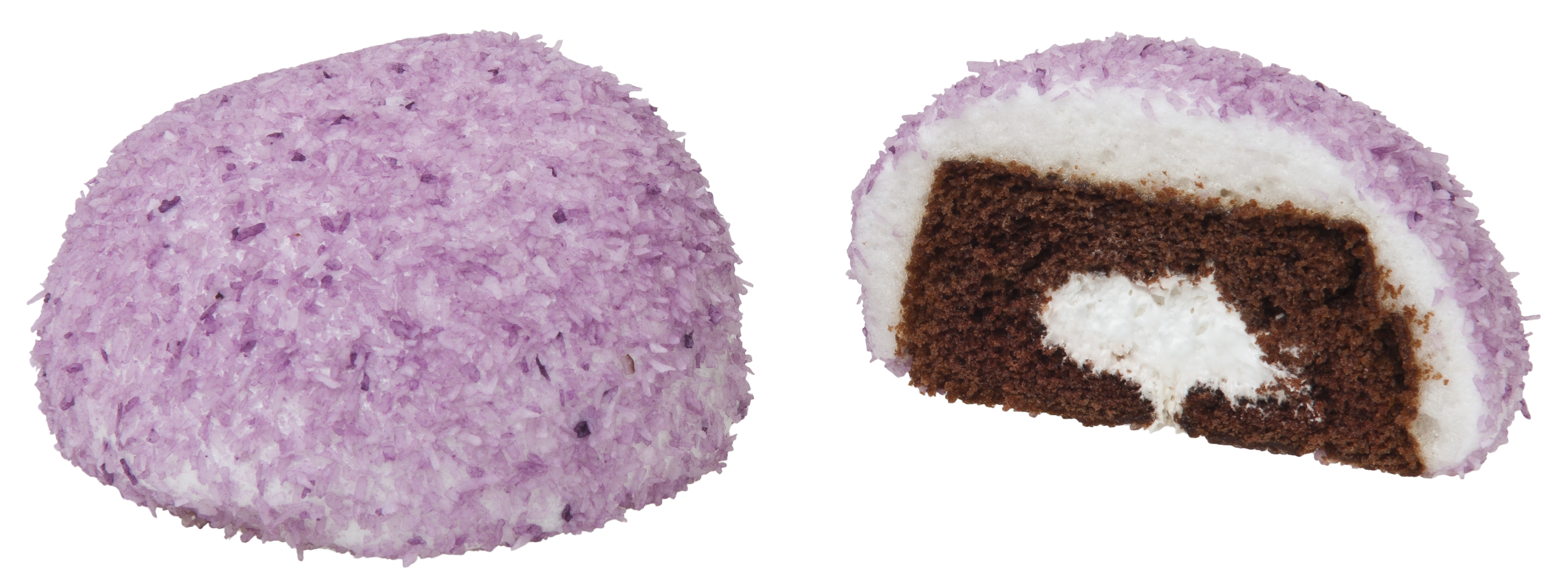 A Hostess Sno Ball. An American snack cake made with chocolate cake, a creme center and a marshmallow and coconut outside.